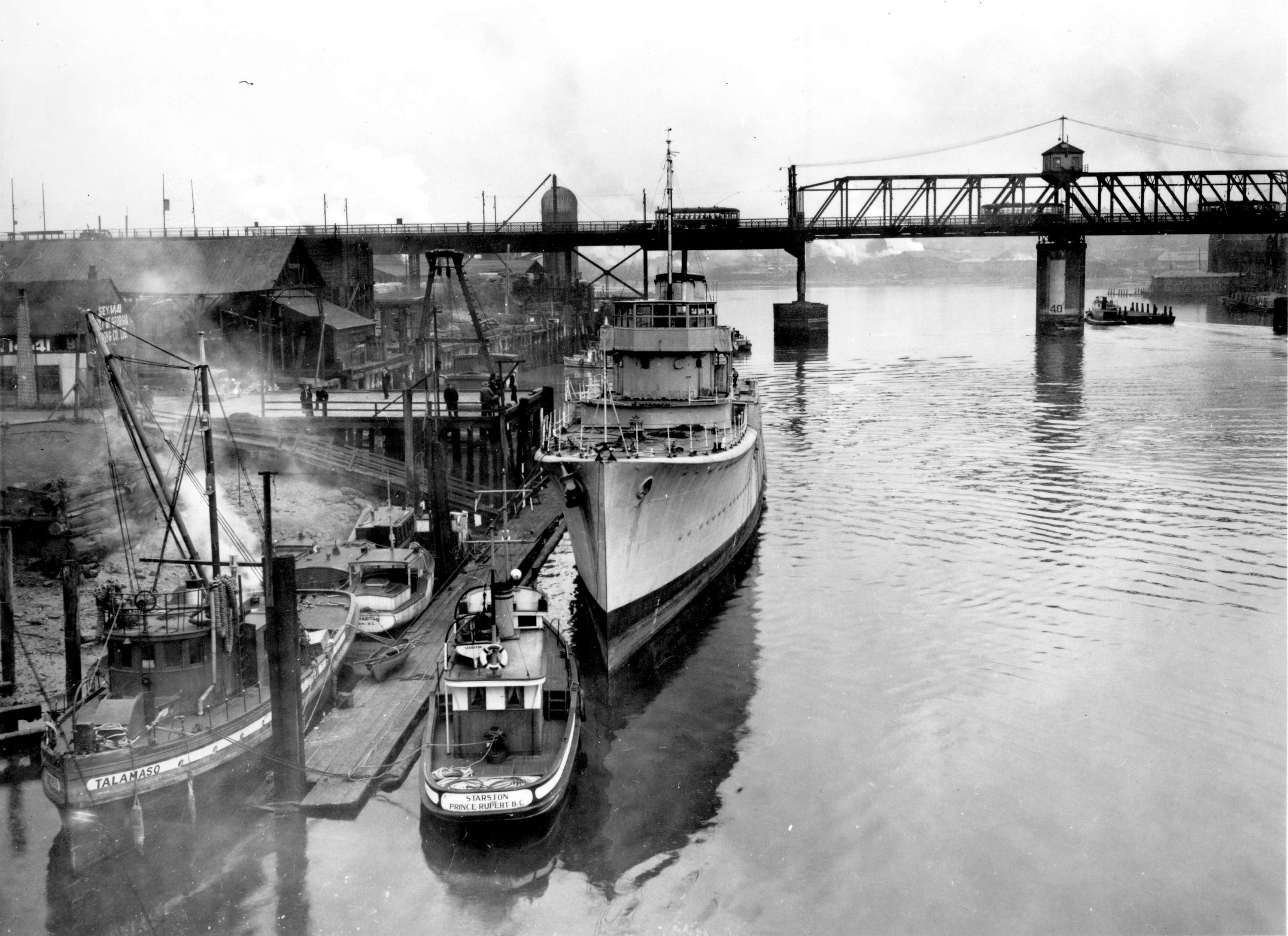 HMCS Vancouver at Gulf of Georgia Towing Co. dock in False Creek, Vancouver. Photograph shows the Granville Bridge and the boats "Talamaso" and "Starston"